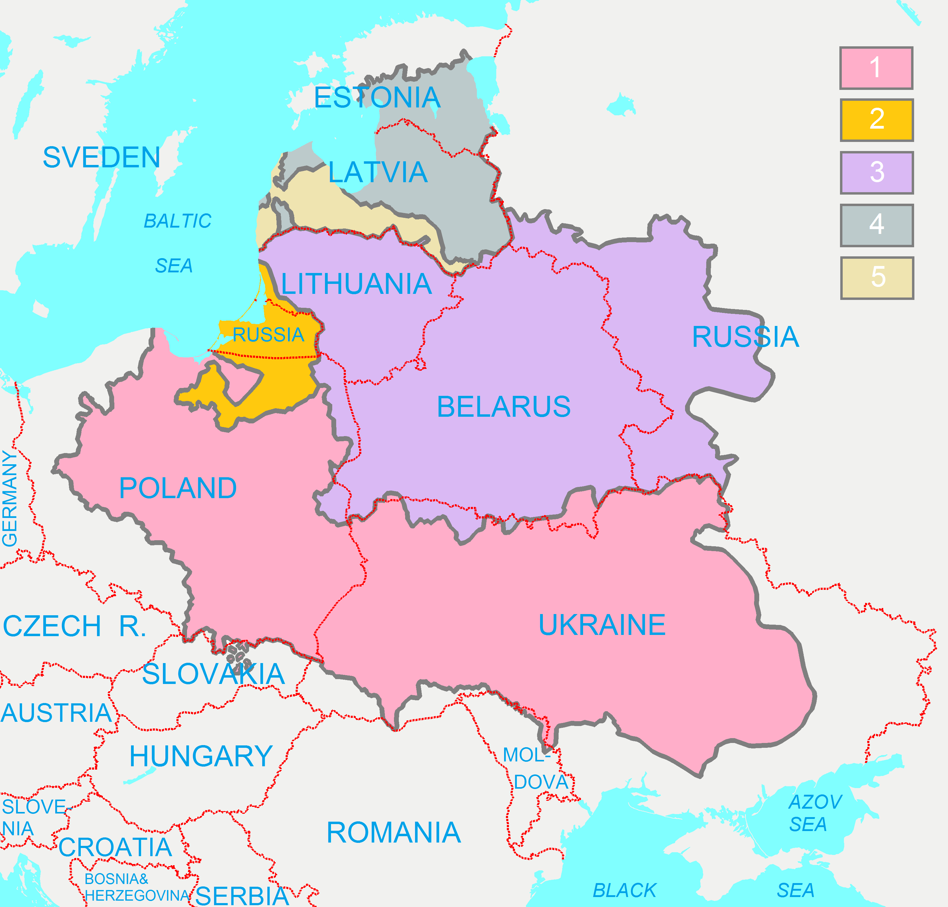 Polish-Lithuanian Commonwealth (1619) compared with today's borders (English version) Legend 1 - The Crown (Kingdom of Poland), 2 - Duchy of Prussia - Polish fief, 3 - Grand Duchy of Lithuania, 4 - Livonia, 5 - Duchy of Courland - Livonian fief.